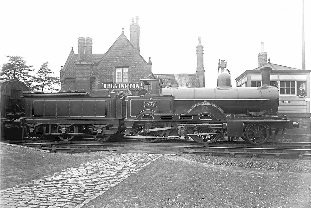 Photograph of LNWR engine No. 507 'Marchioness of Stafford'